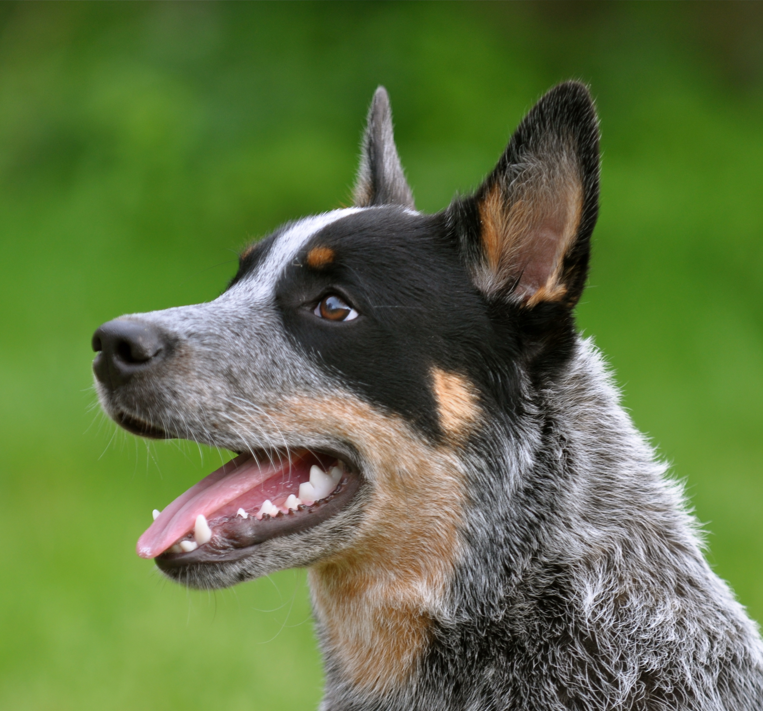 Young Australian Cattle Dog